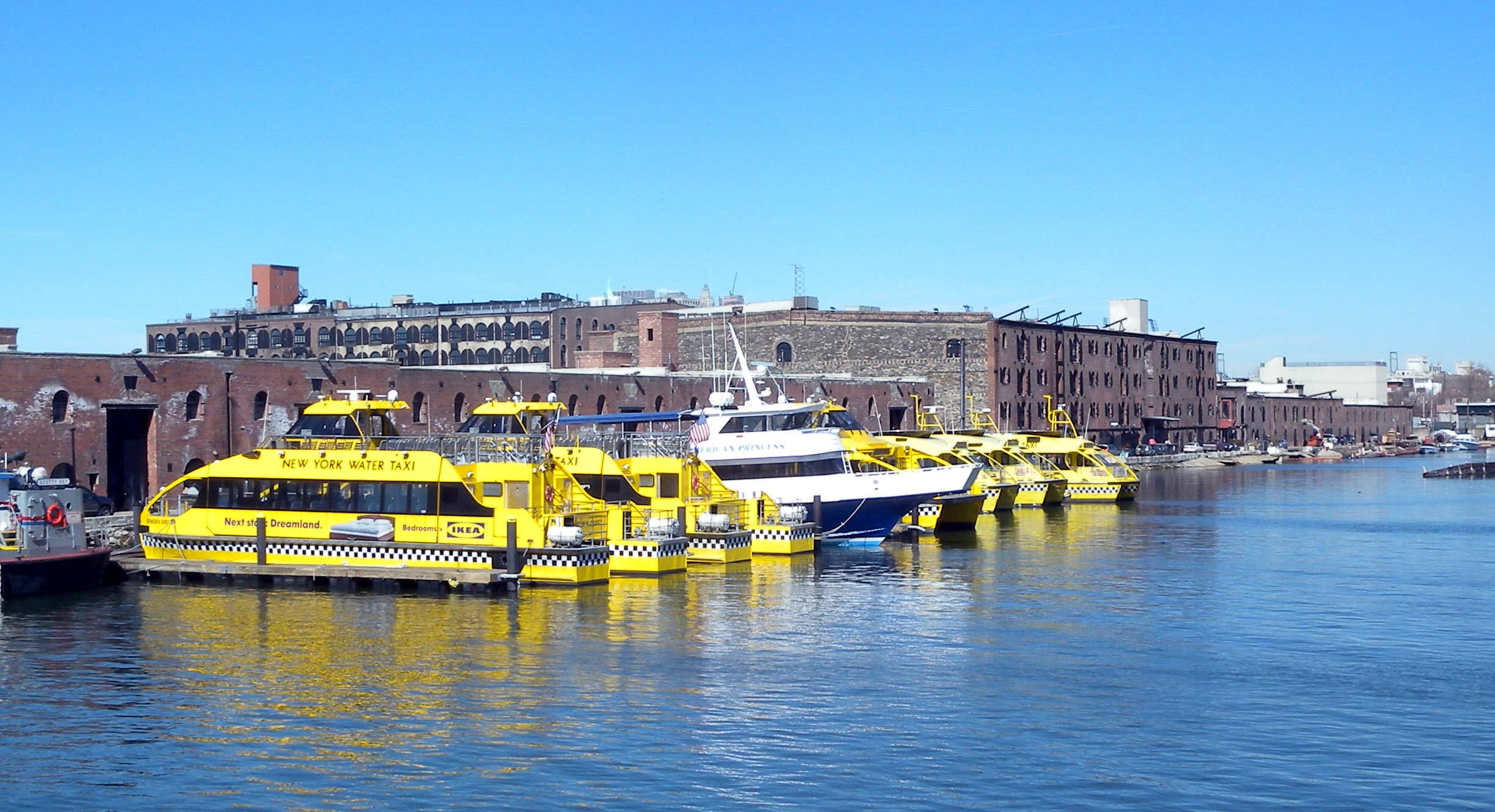 Looking north from entry of Erie Basin, at New York Water Taxi fleet at dock on a sunny midday.